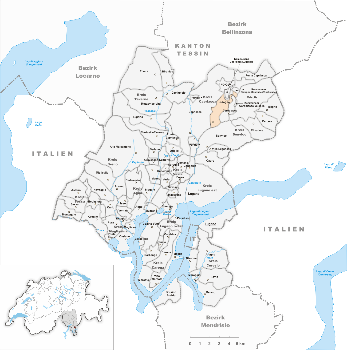 Municipality Bidogno